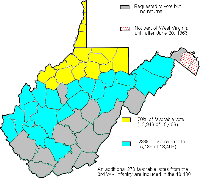 Map created based on the voting results of statehood referendum on Oct. 24, 1861 in West Virginia as compiled by Richard O. Curry in "A House Divided", pgs. 141-152.